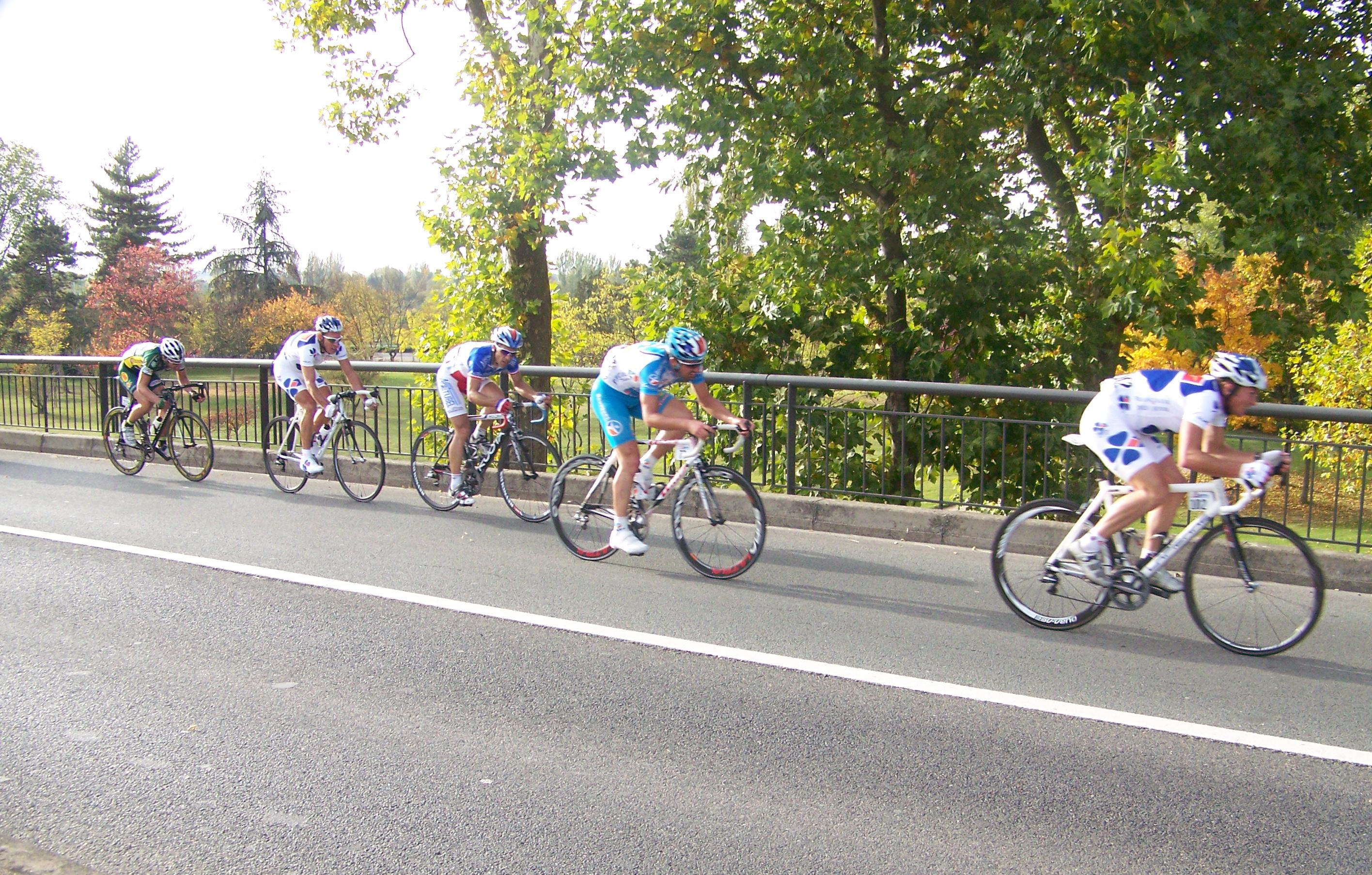 Paris-Tours 2008 : Top 4 (Delage (34e), Turgot (3e), Vogondy (4e), Gilbert (1er), Kuyckx (2e))